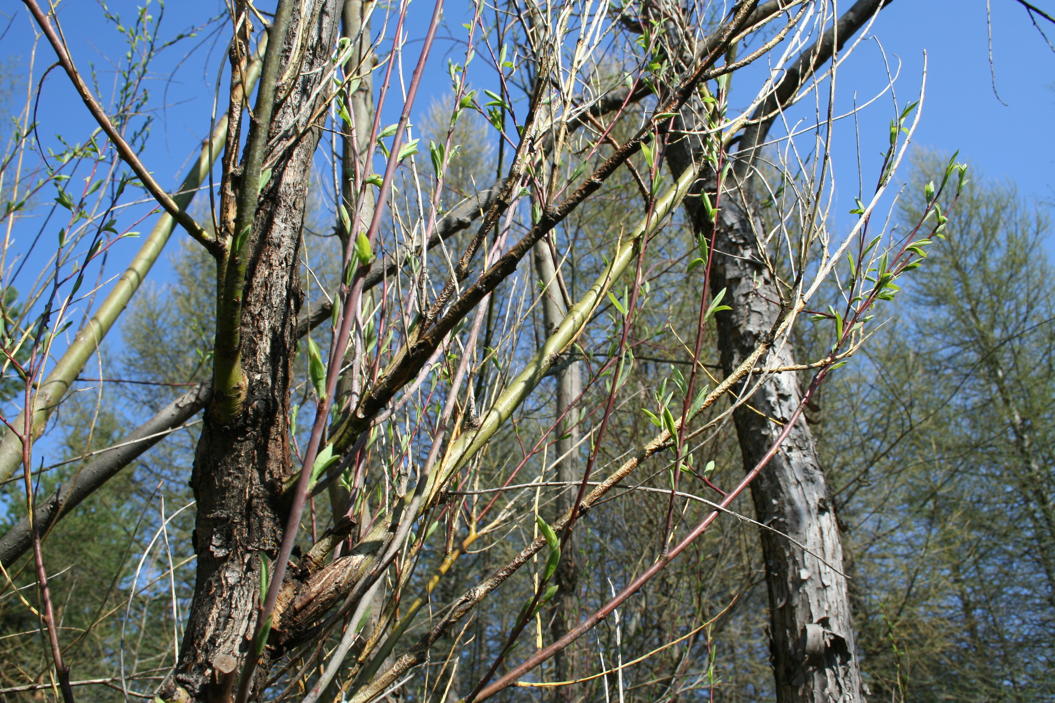 Trunks of Chosenia arbutifolia in Oulu University Botanical Gardens, Finland.